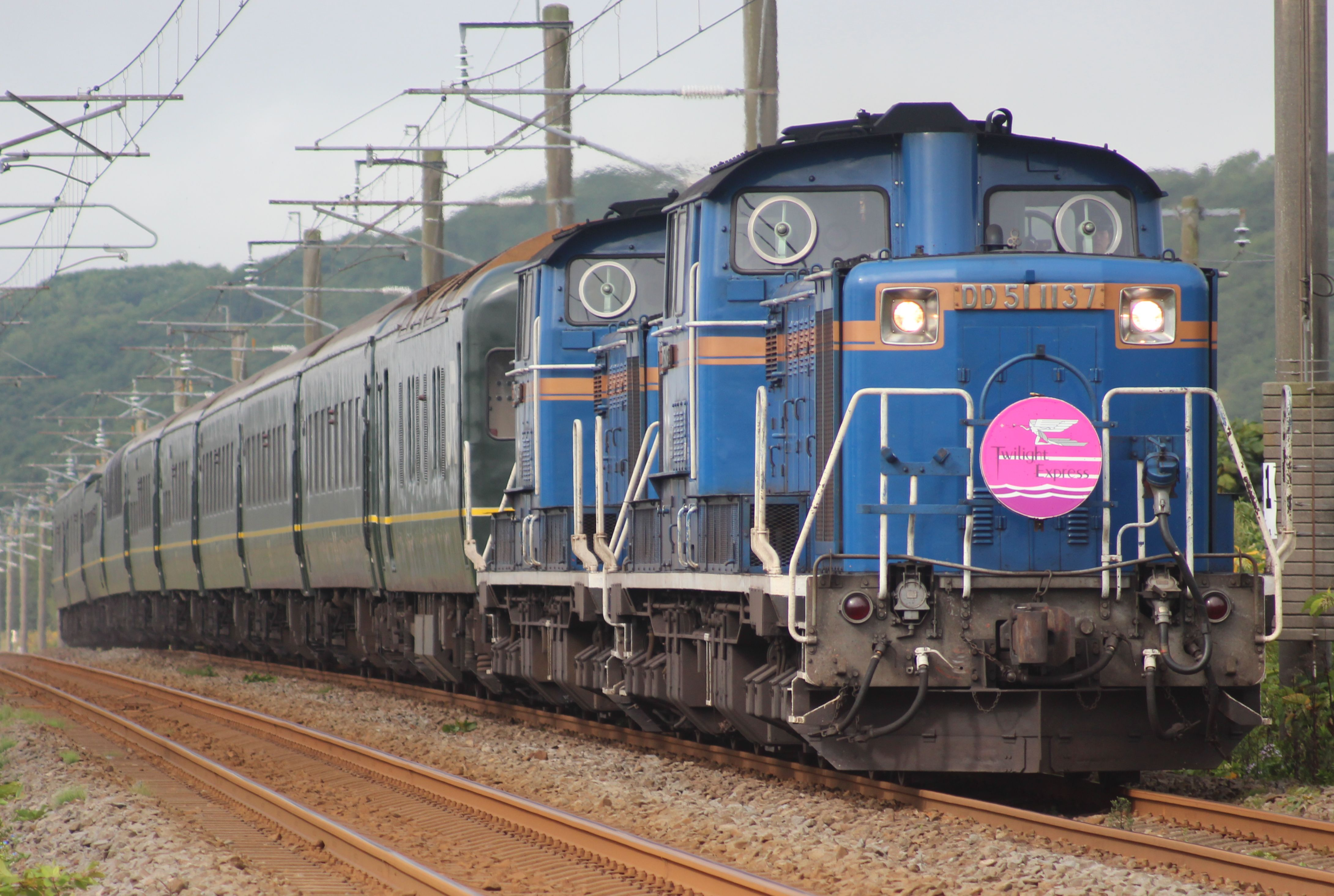 A pair of JR Hokkaido Class DD51 diesel locomotives led by DD51 1137 hauling the Twilight Express overnight sleeper service